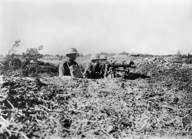 Australian War Memorial caption: "...Vickers machine gun at an outpost of the 24th Machine Gun Company, near Vendelles, the night before the attack which culminated in the capture of the Hindenburg Outpost Line in front of Le Verguier, by the 4th Australian Infantry Brigade." The 24th MG Coy formed part of the Australian 4th Machine Gun Battalion.